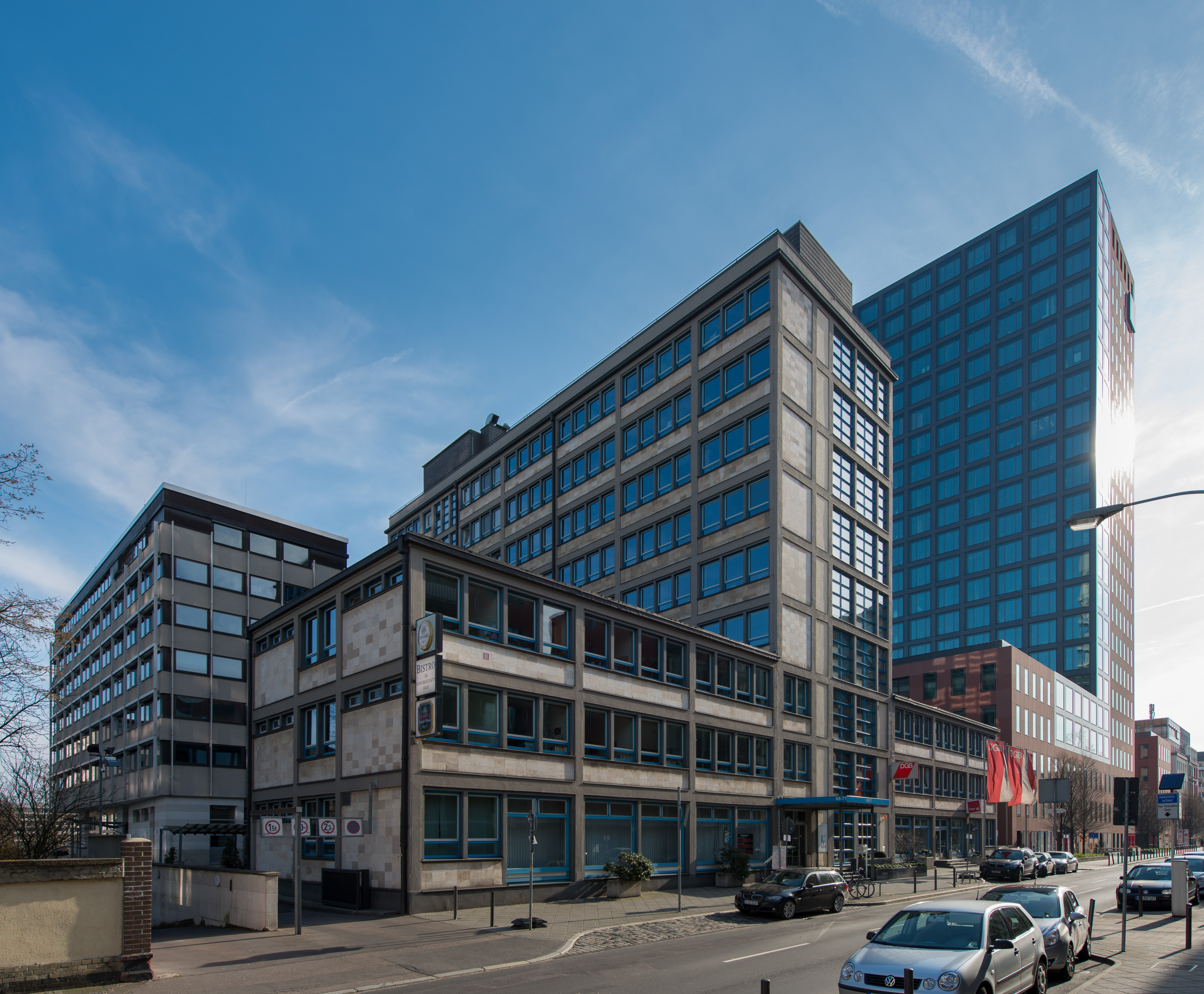 Frankfurt am Main, Wilhelm-Leuschner-Straße 75, House of the Unions (1930/31) in front of the modern IG Metall tower. Cultural monument of the city